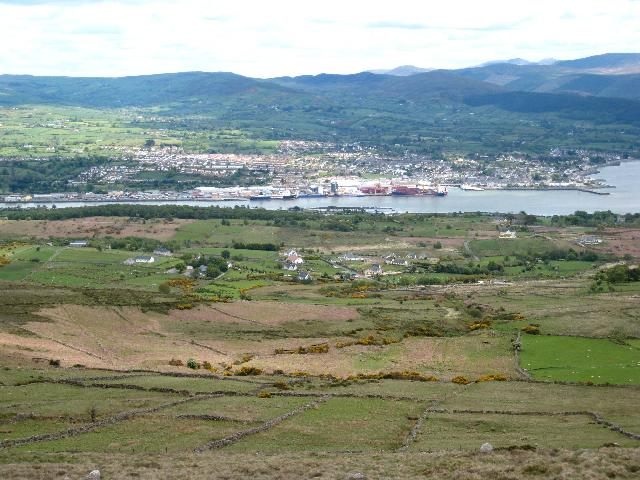 Warrenpoint from the Clermont Pass Road Looking from the Cooley Mountains across Carlingford Lough.